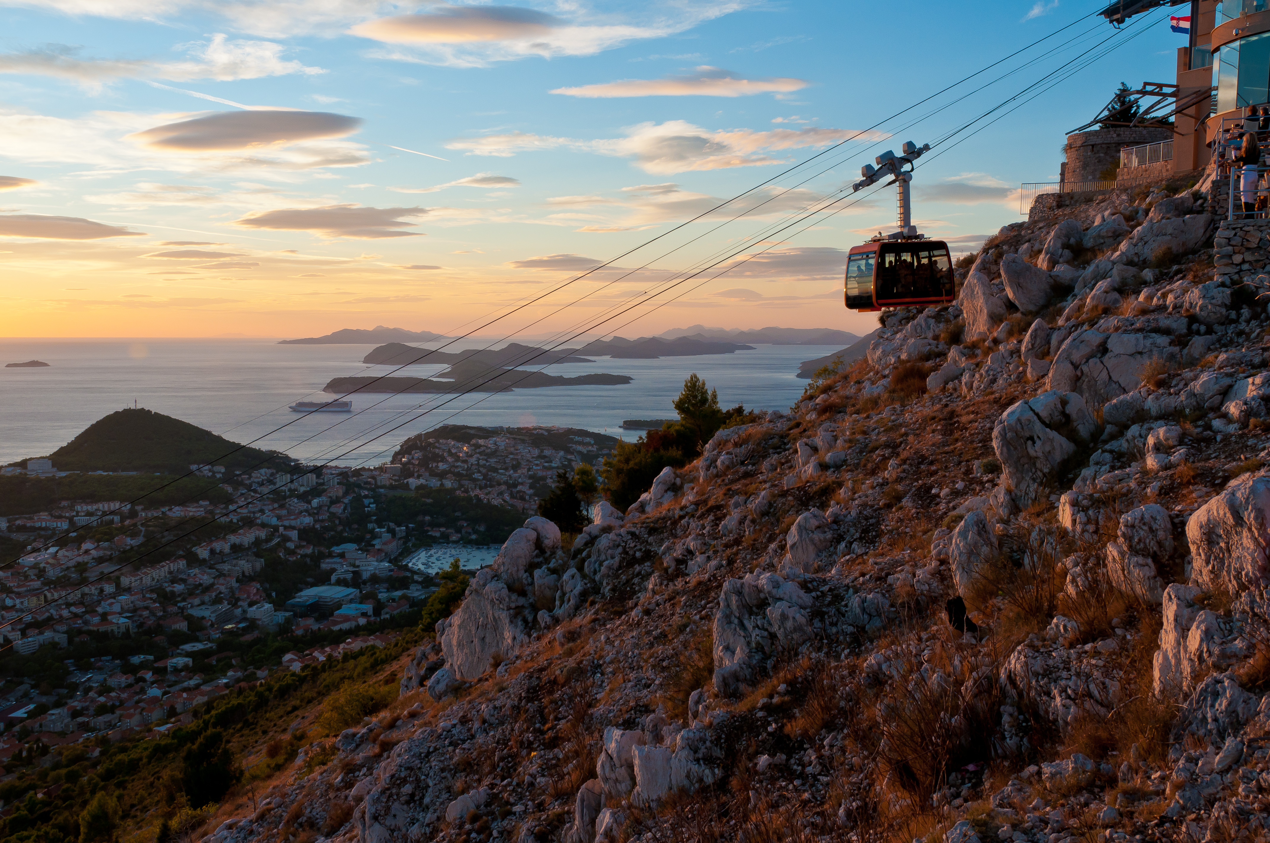 The views from the top of the Cable Car at sunset.